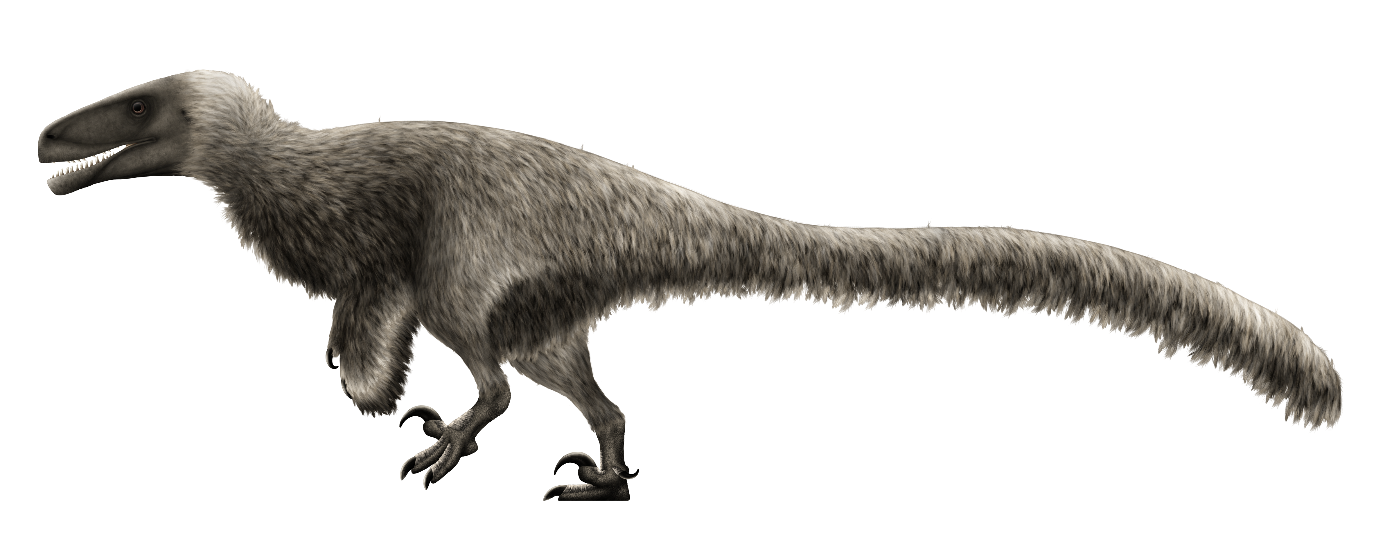 Artistic restoration of the dromaeosaur Achillobator, colouration based on Red Footed Falcon.